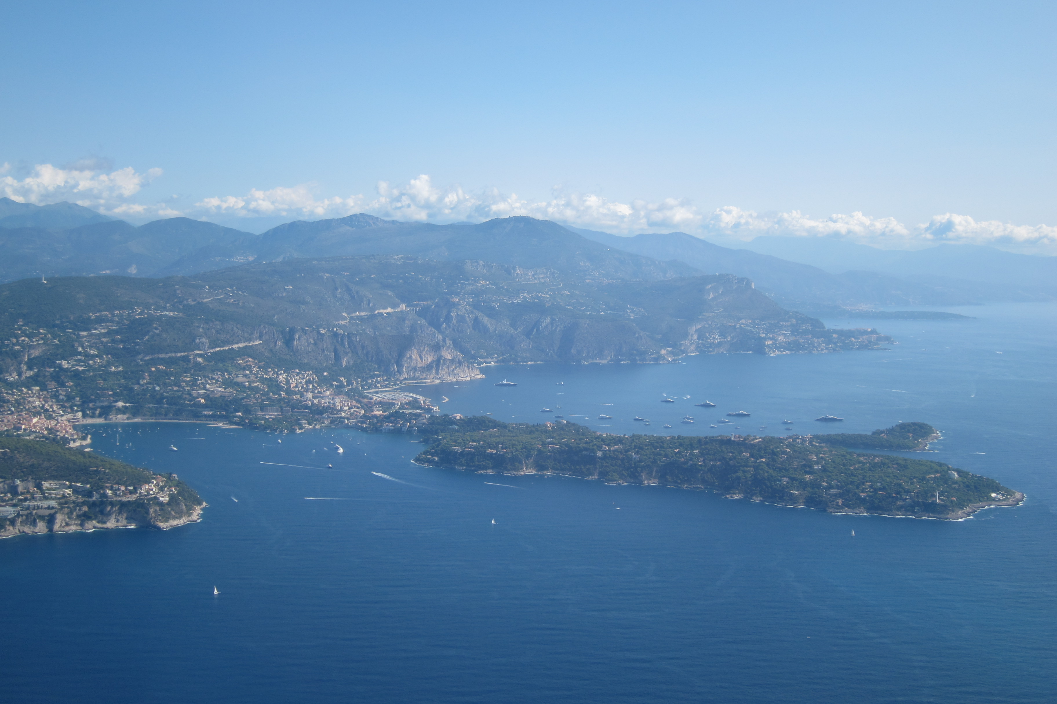 Saint-Jean-Cap-Ferrat seen from the sky in 2014